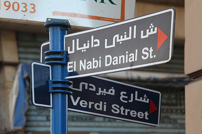 Street sign in the Nabi Danial St, Alexandria, Egypt